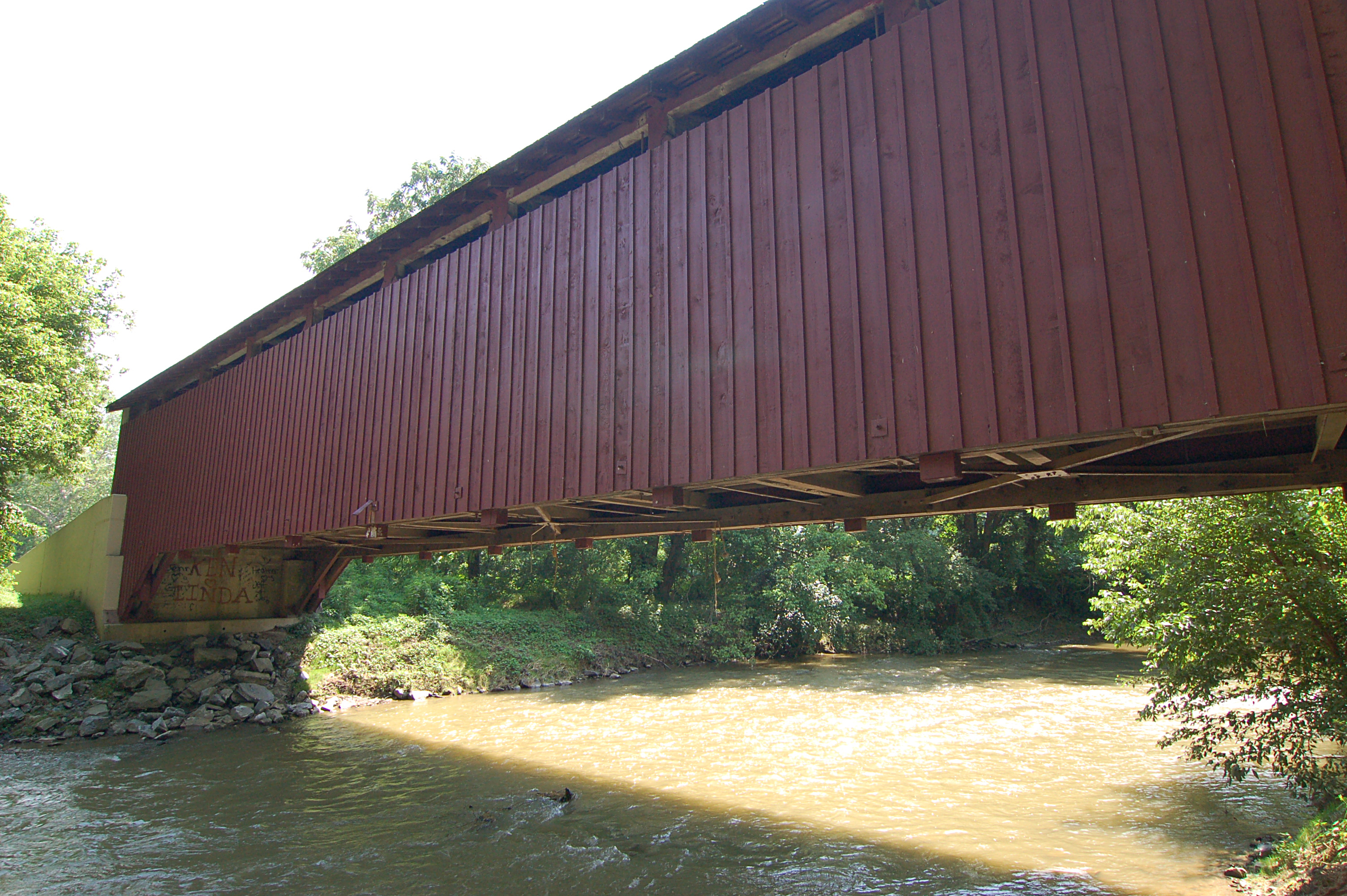 A photograph of the Baumgardener's Covered Bridge located in Lancaster County, Pennsylvania. The picture is taken from the side showing about 80% of the bridge.